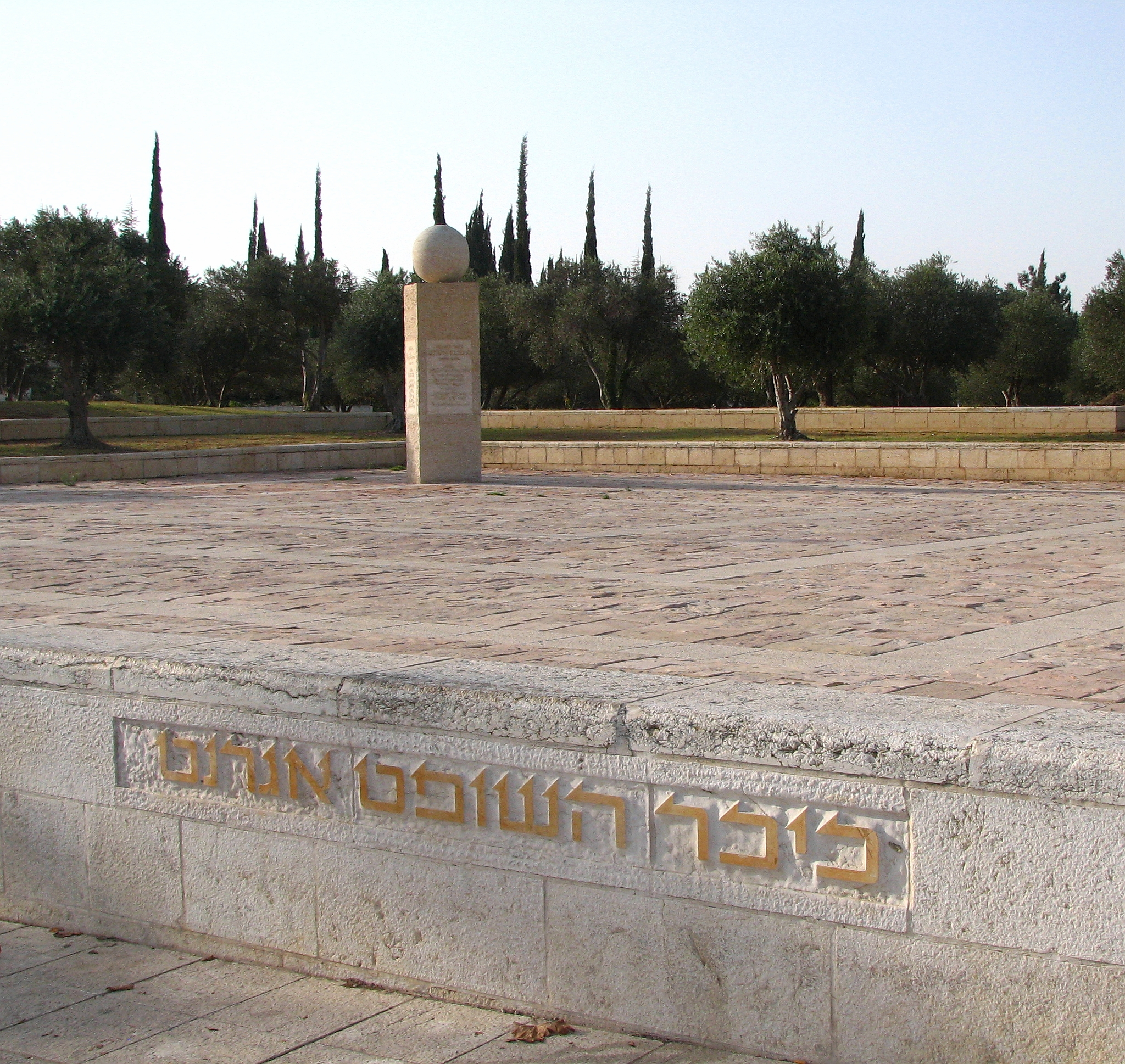 Shimon Agranat Square, Jerusalem (outside Israeli Supreme Court)